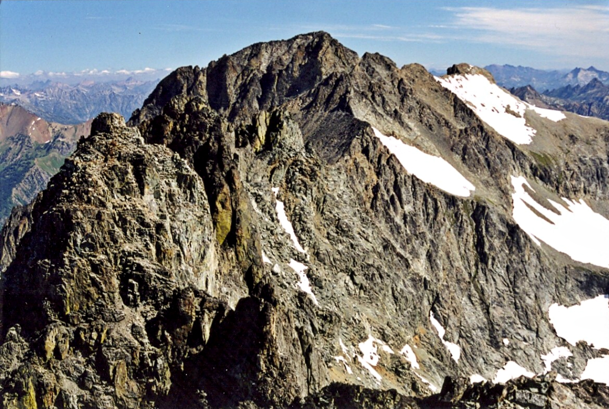 Mount Fernow seen from Seven Fingered Jack. North Cascades, Entiat Mountains.